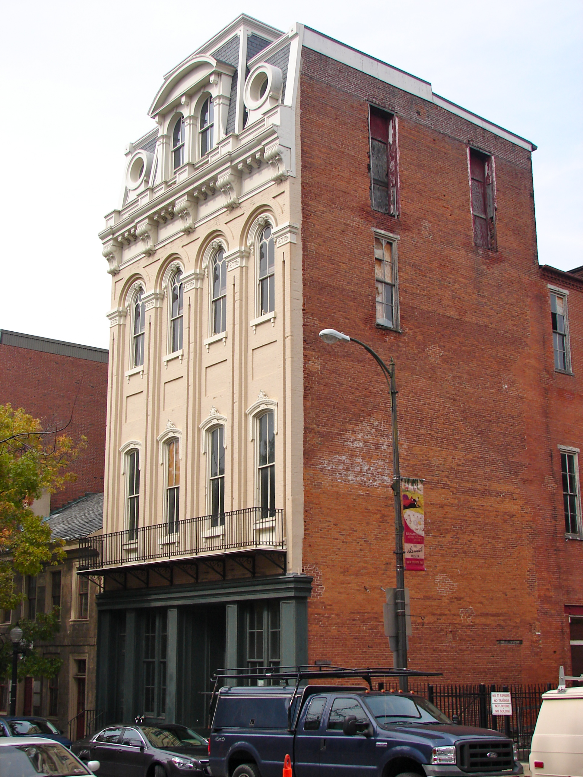 Sprenger Brewery on the NRHP since November 27, 1979. At 125–131 East King Street in the Central Business District of Lancaster, Pennsylvania. Frankly this doesn't look like a brewery to me, but the address is correct. It must be the Brewery offices.